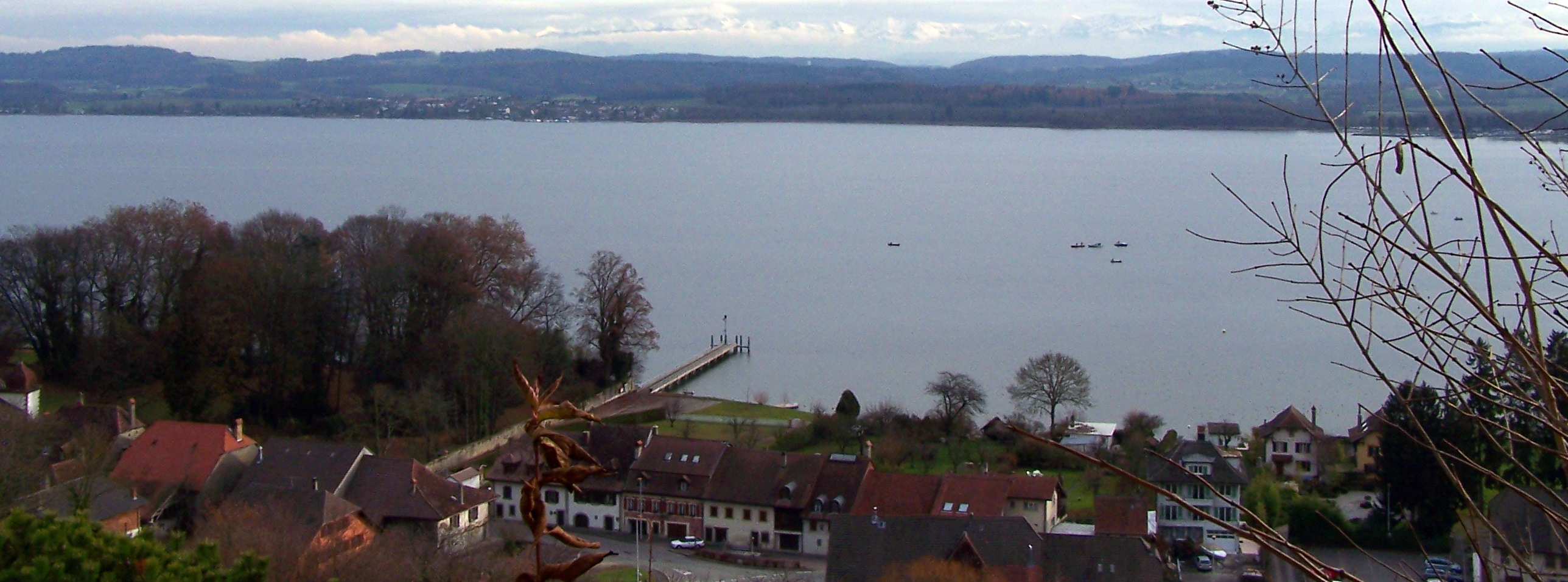 Pictures of the Vallamand-Dessous pier, on the lake of Morat (Murten), Canton of Vaud, Switzerland